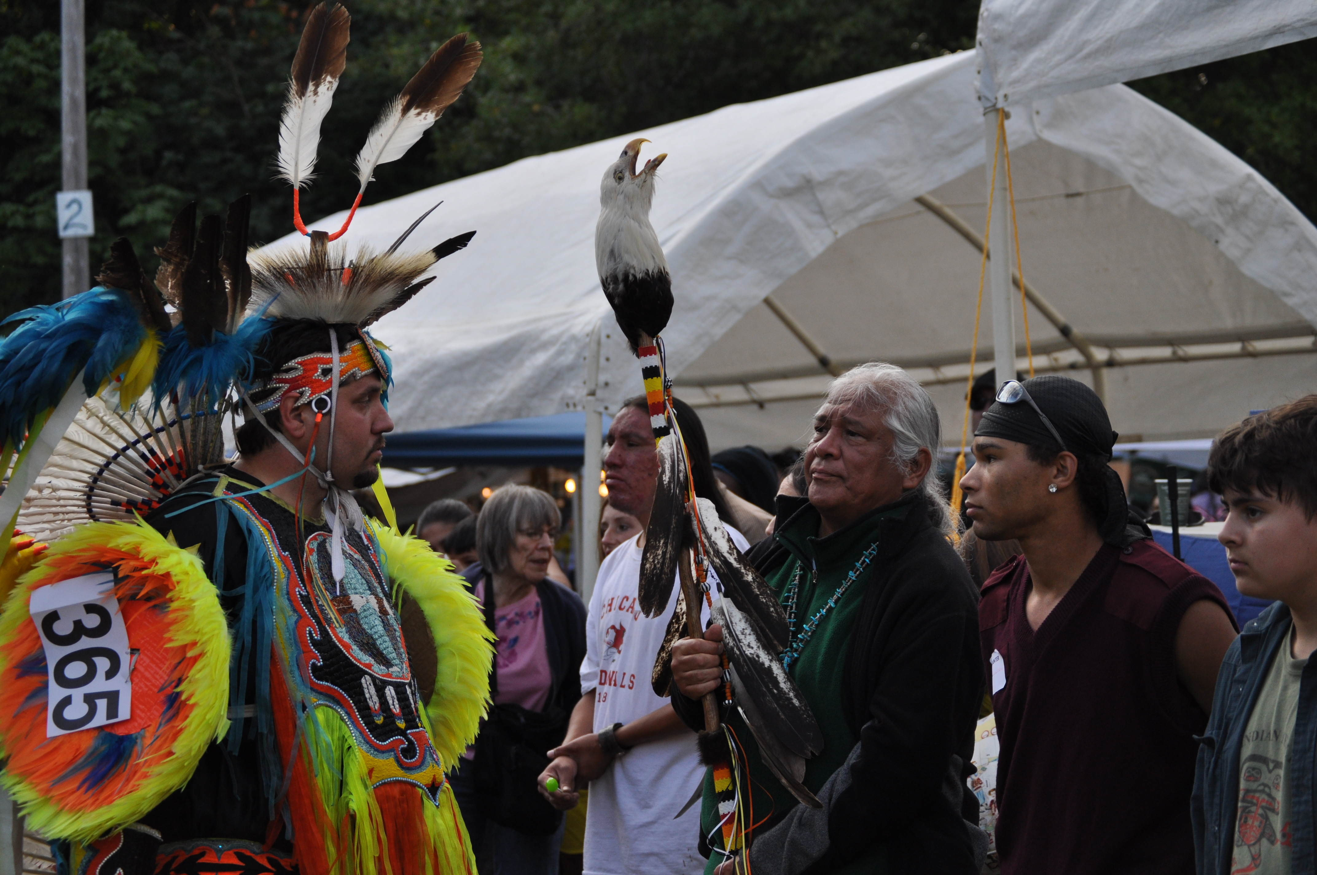 Passing the Eagles Staff after the Grand Entry, Seafair Indian Days Pow Wow, Daybreak Star Cultural Center, Seattle, Washington. The event is part of Seafair (a series of annual summer events in Seattle) and under the aegis of the United Indians of All Tribes Foundation.